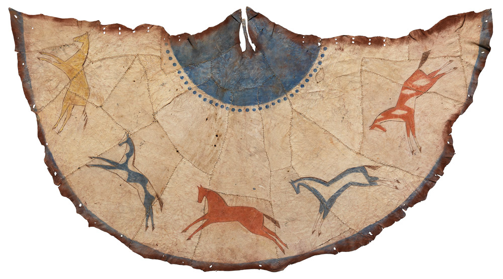 Model tipi, Cheyenne Central Plains, North America, 1860, buffalo skin and pigments, Donald Ellis Gallery, photo John Bigelow Taylor Donald Ellis Gallery, model tipi, Cheyenne Central Plains, North America, 1860, buffalo skin and pigments, 144 x 80 cm, photo John Bigelow Taylor